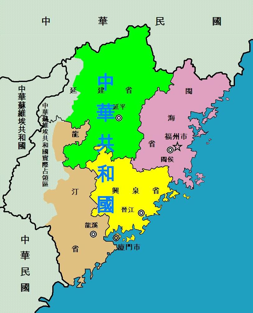 Map of the People's Revolutionary Government of the Republic of China, 1933